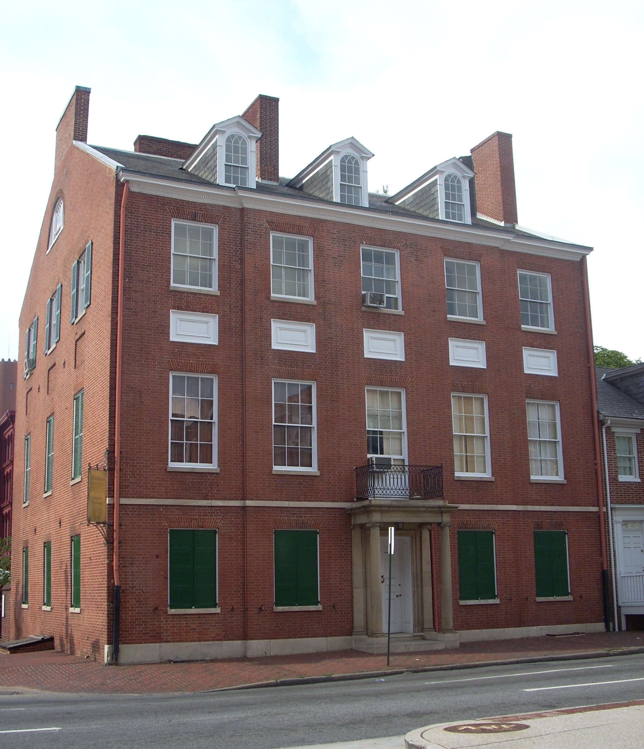 Carroll Mansion, 800 E. Lombard St., Baltimore City, Maryland Object location39° 17′ 19″ N, 76° 36′ 17″ W